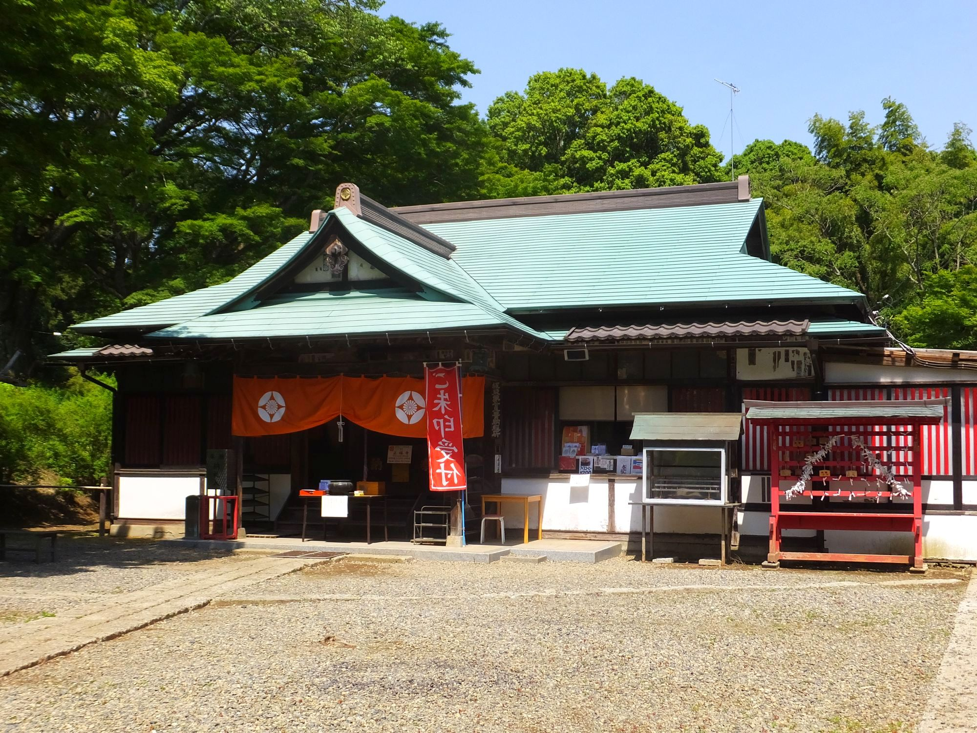 Shōfuku-ji temple in Kasama, Ibaraki Prefecture